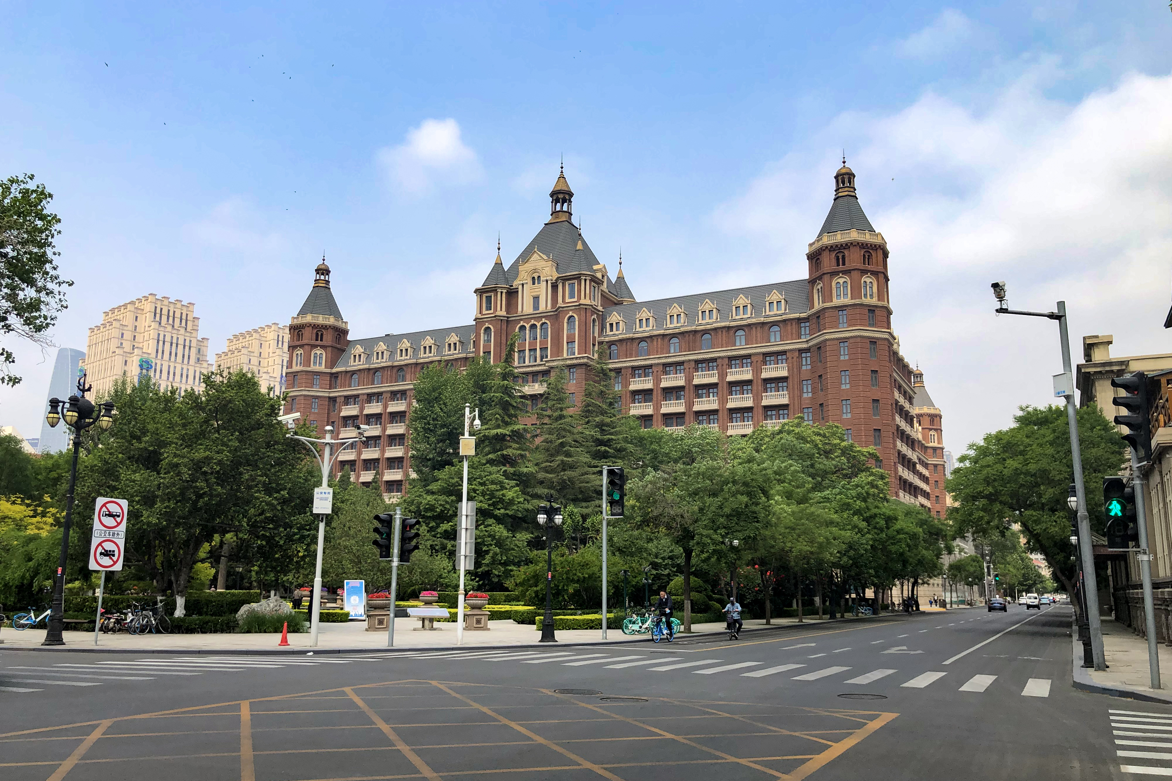 Just besides Astor House.